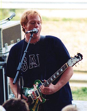 American rock musician Jamie Rowe performing live.